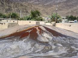 MirOmar